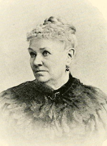 An older white woman, wearing earrings and a dark lace-yoked blouse; her grey hair is dressed in a braided top bun with a short curly fringe.